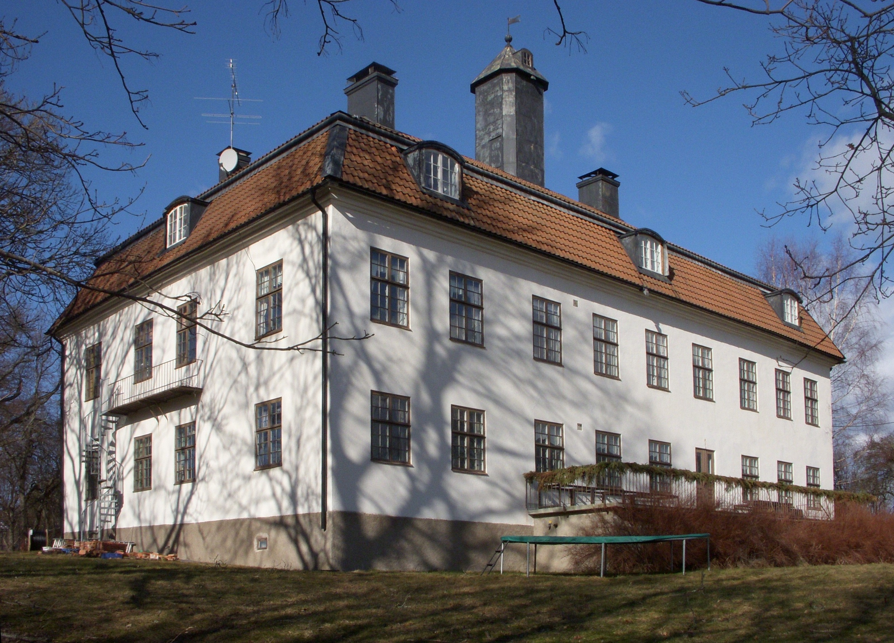 Ludvigsbergs herrgård på Muskö